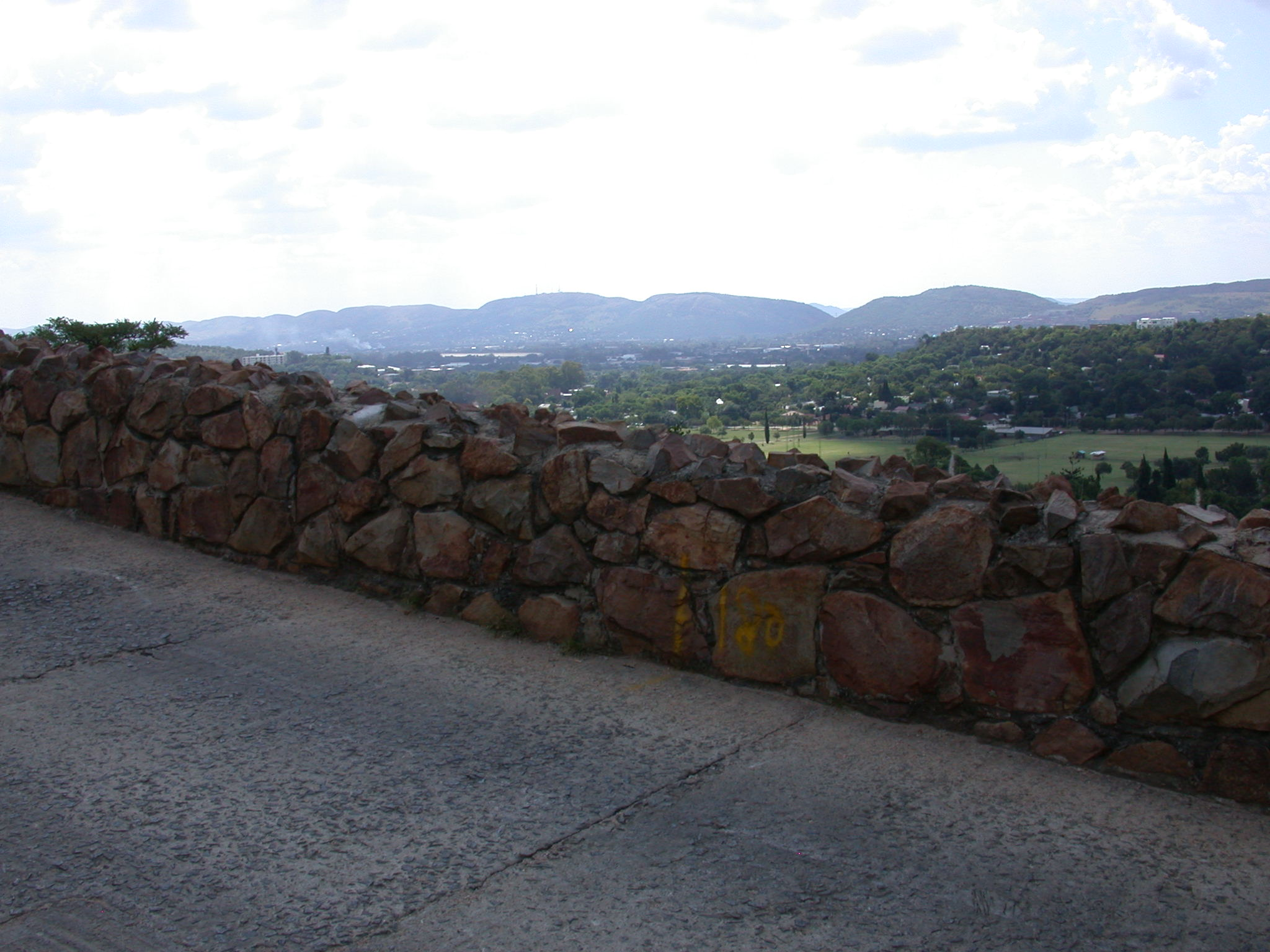 View from Tom Jenkins Drive in Pretoria